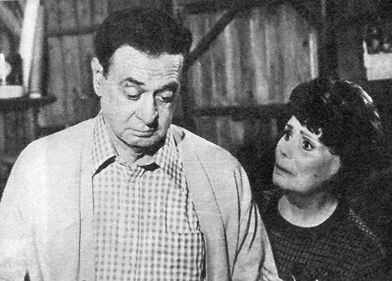 quelidnaesmifamilia1